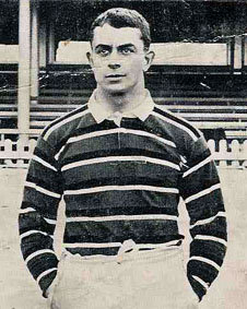 David Bedell-Sivright, Scottish and British Lions rugby union captain. Due to the rugby jersey he is wearing, almost certainly taken in New Zealand or Australia during the British Isles rugby tour in 1904.